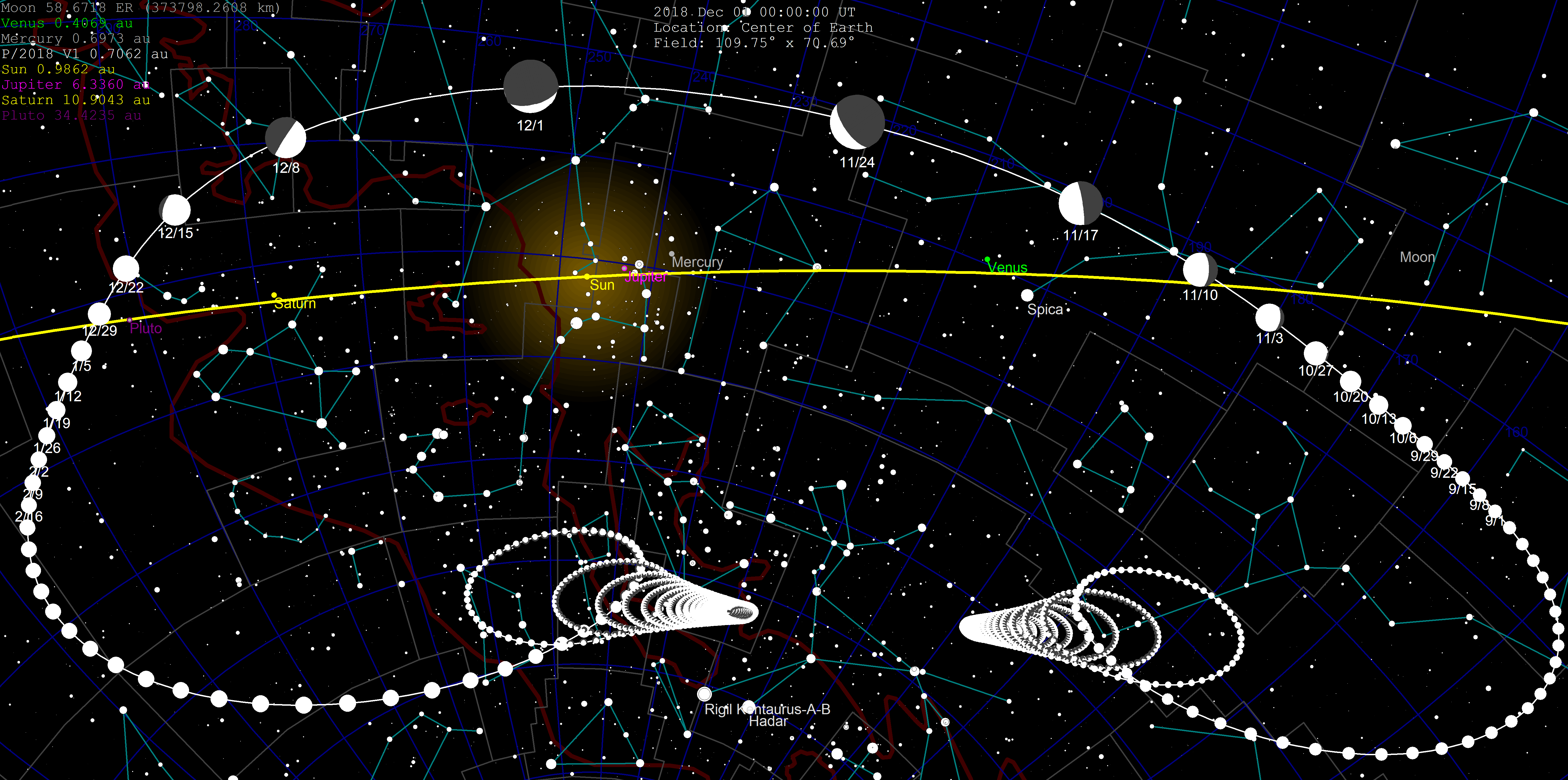 Trajectory of parabolic comet, with 7 days of motion symbols showing spherical phases.